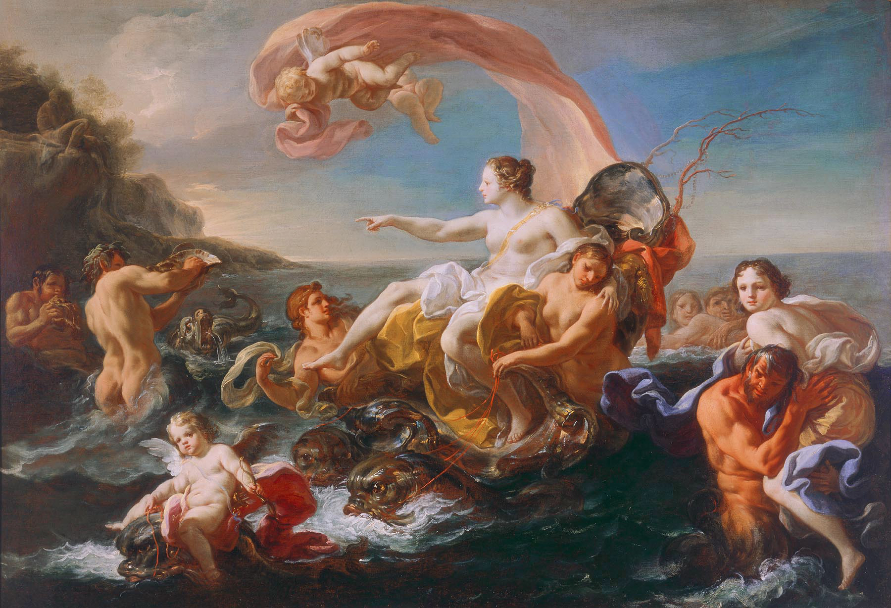 The Triumph of Galatea oil on canvas 85.1 × 123.2 cm circa 1752